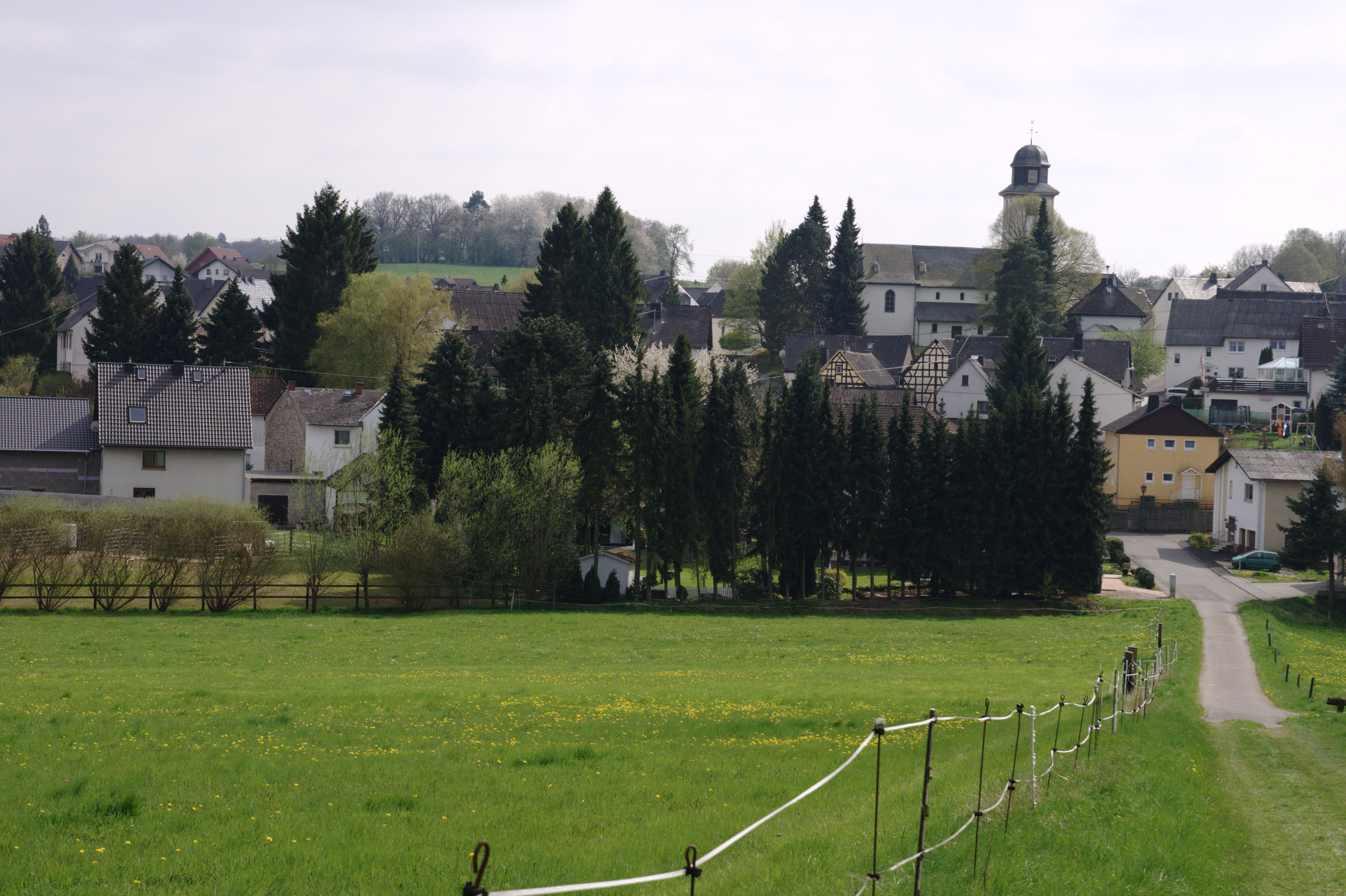 Village Nordhofen, Westerwald, Germany. View from the north